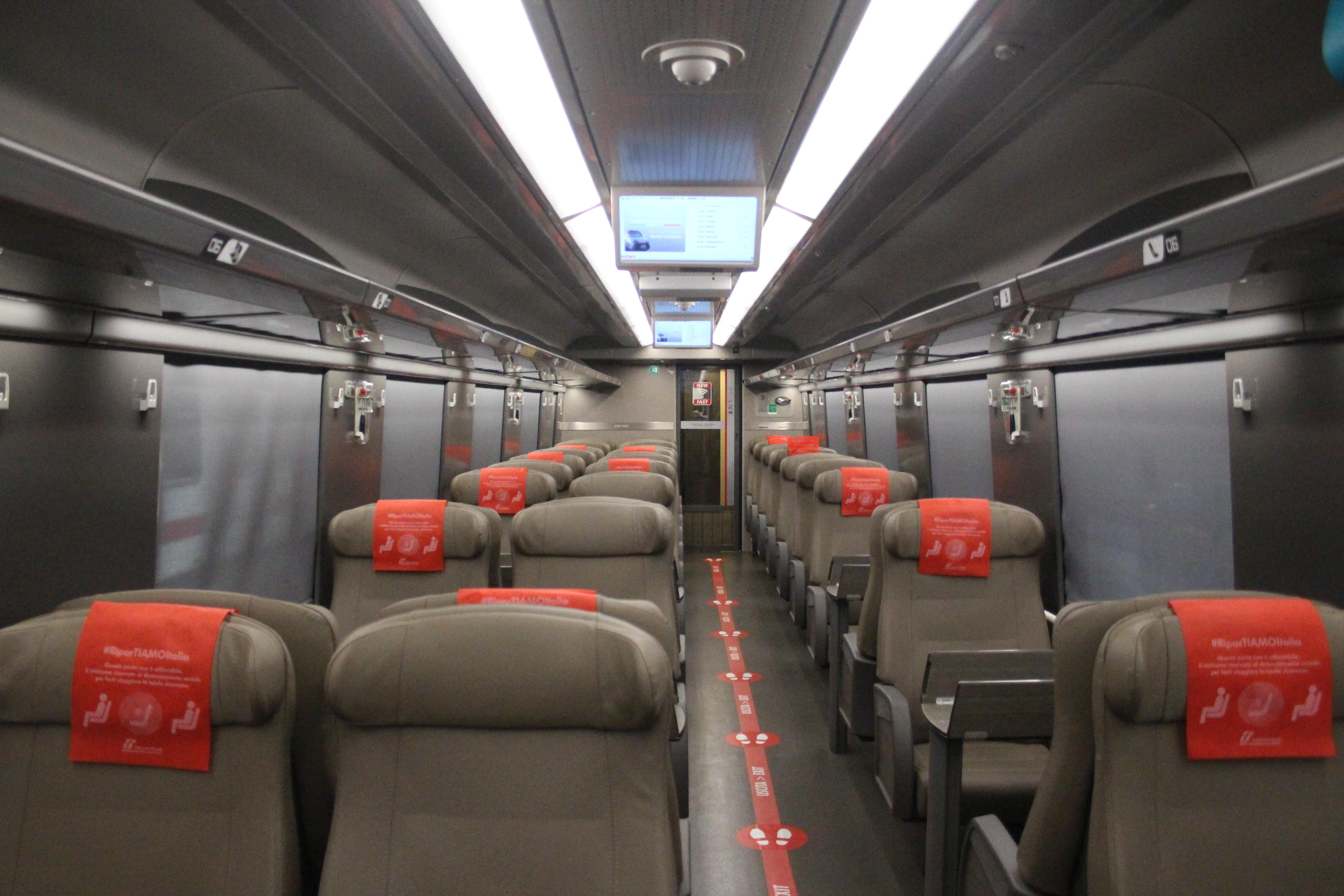 The Business Class interior of a FS ETR.700 unit of Trenitalia, as used on their Frecciabianca services. This train is a former Fyra V250 set. There are also bibs on some seats, advising passengers to keep their distance, as this photo was taken during the COVID-19 pandemic.